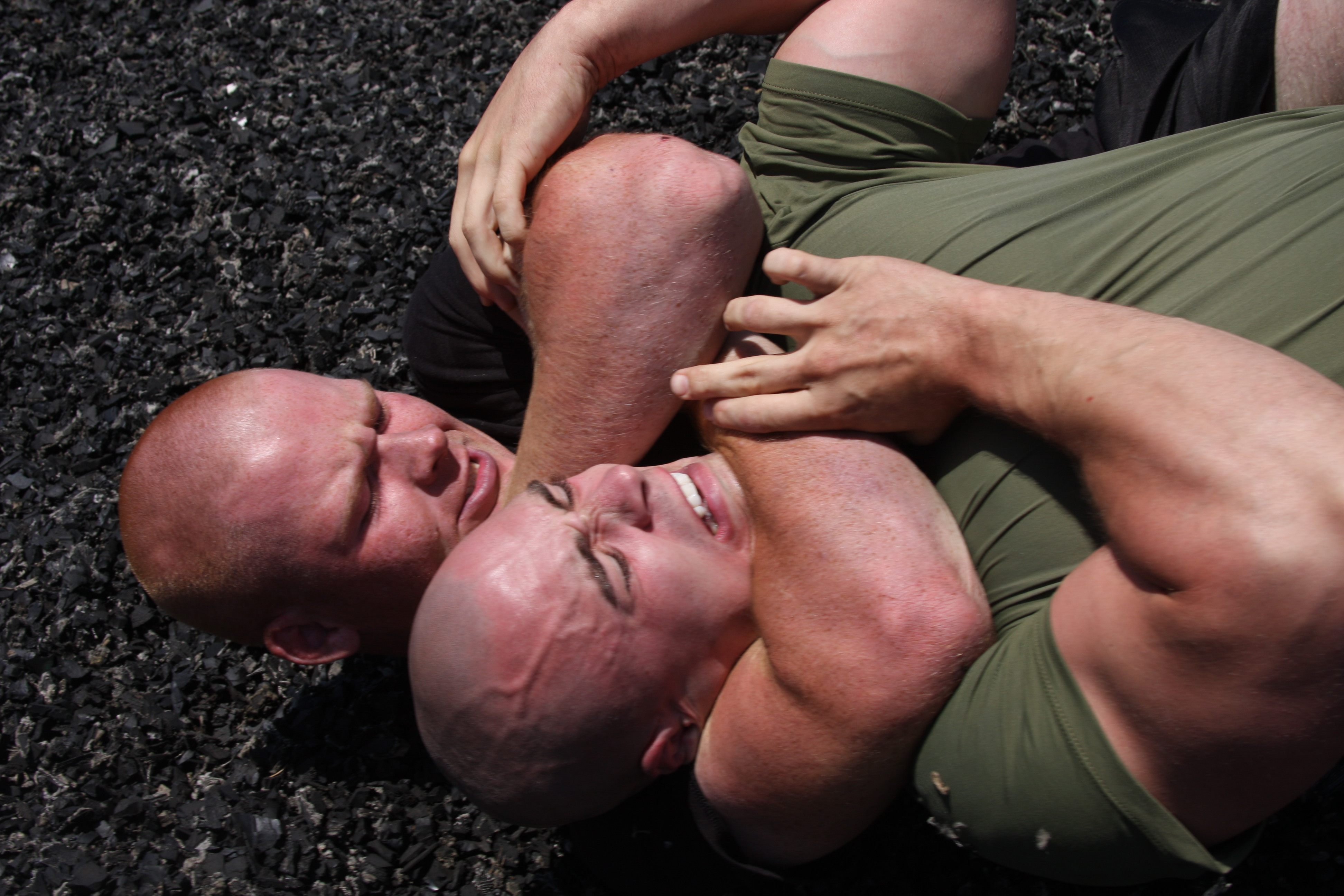 Lance Cpl. Nathan Goens, a heavy equipment operator with Combat Logistics Battalion 7, squeezes the breath out of his former senior drill instructor, Staff Sgt. Nathan Schoemer June 28. After returning to Marine Corps Recruit Depot San Diego to accept Schoemer’s challenge, Goens won the match with this chokehold.